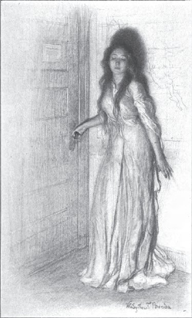 From the August 1907 edition of Scriber's Magazine (Vol XLII, no. 2). An illustration from the story "The Ghost at Point of Rocks" Google Books: Title Scribner's magazine, Volume 42 Editors Edward Livermore Burlingame, Robert Bridges, Harlan Logan Publisher Charles Scribners Sons, 1907 Original from Harvard University Digitized Mar 12, 2007